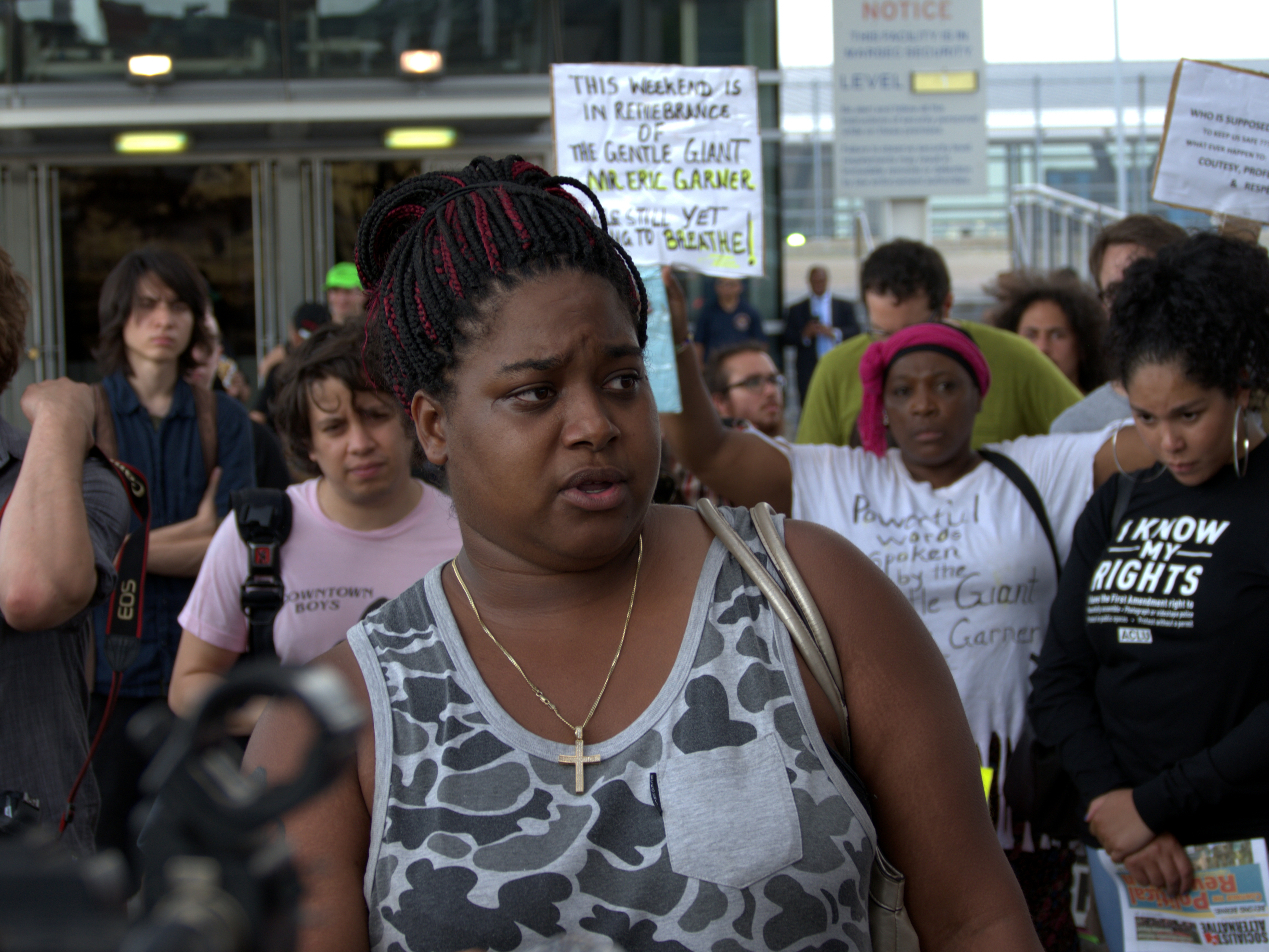 Erica Garner at the 2016 protest entitled "Back to the Streets For Eric Garner"